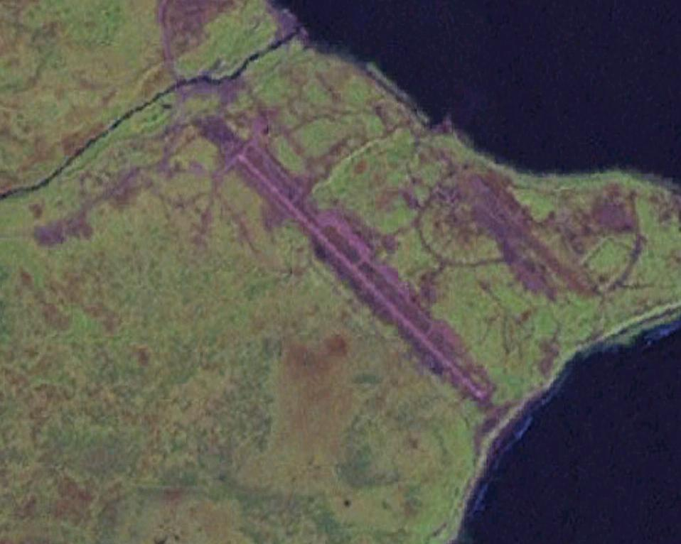 Burevestnik airfield, former Soviet Union. Image from NASA World Wind.